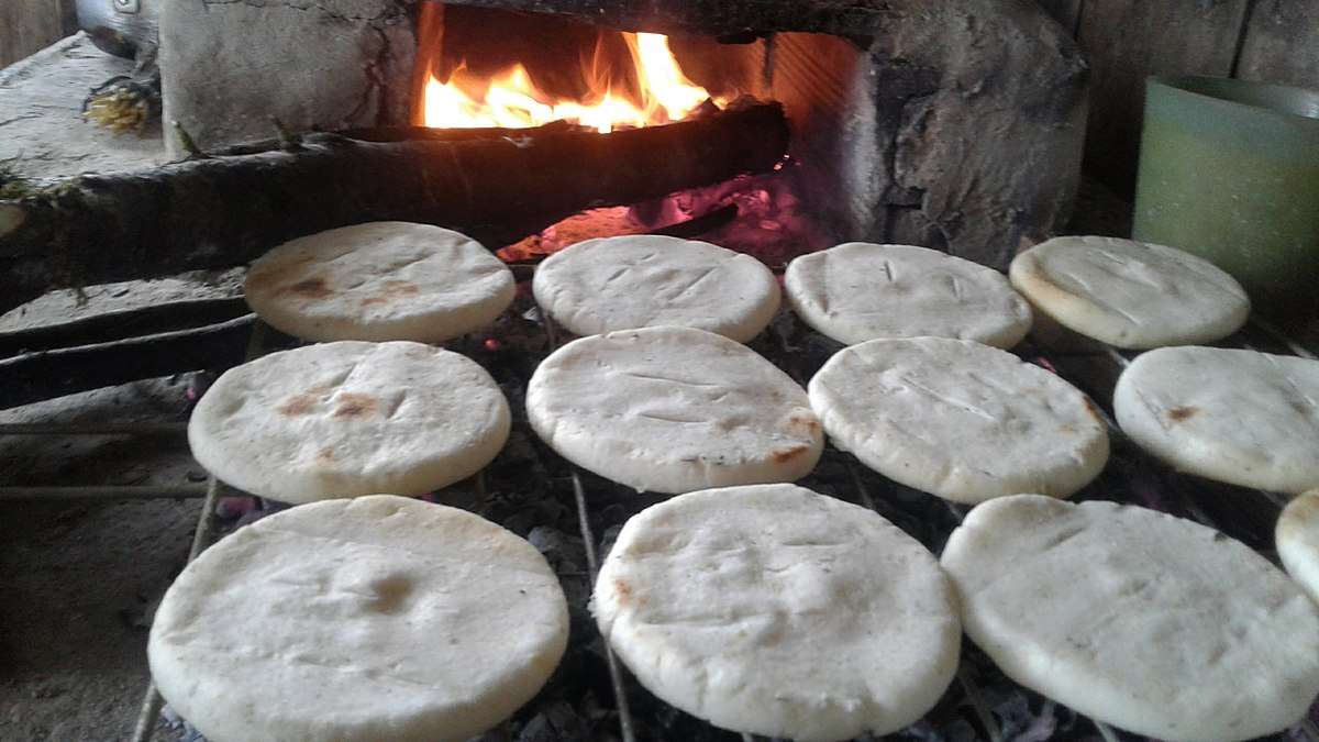 Arepas being cooked on a wood fire stove